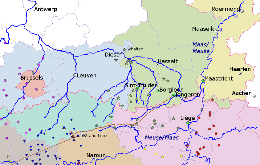 Modern provinces of Belgium and the Netherlands are in pastel colours. The main source is the study by Ulrich Nonn (1983), Pagus und Comitatus.